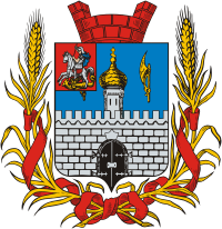 Sergiev Posad (Moscow oblast), coat of arms (1883)